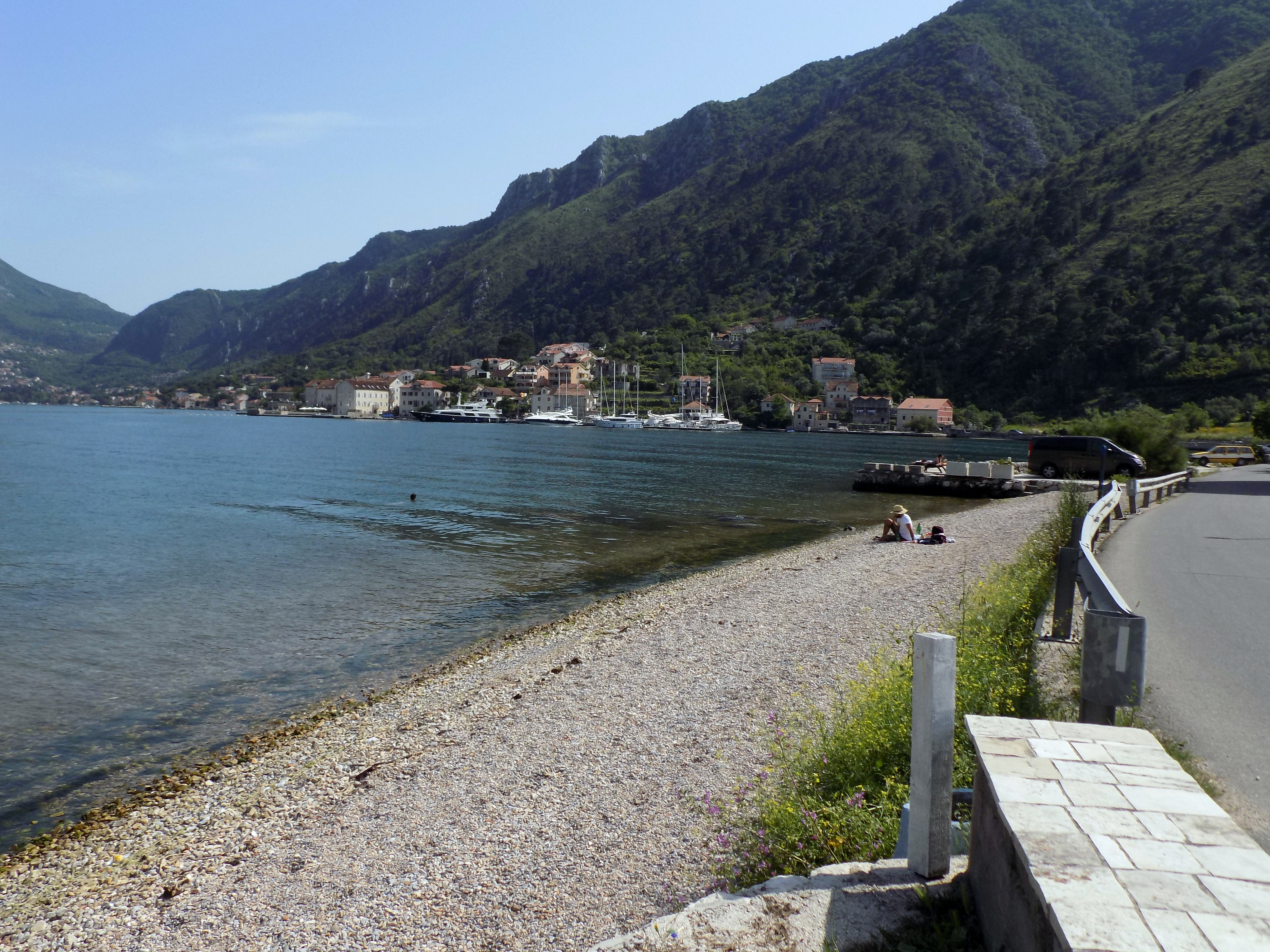 Fishing post in Bay of Kotor, near Prčanj, Montenegro